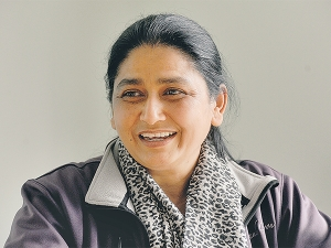 Picture of Binda Pandey